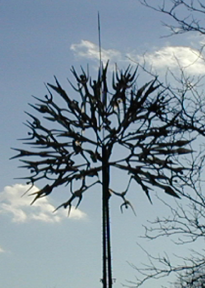 People Tree, Columbia, Maryland.